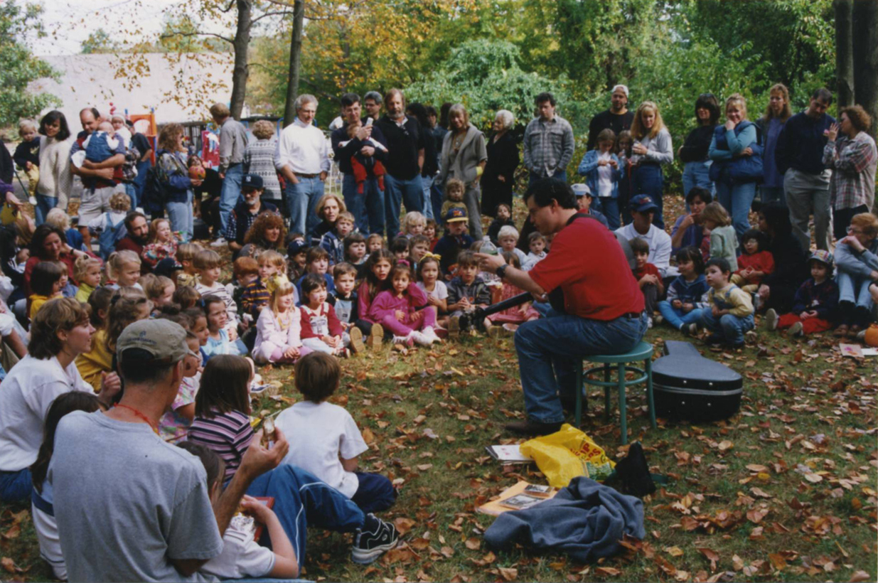 Graham Clarke performing at the Ethical Culture Society in Mamaroneck, NY October, 1998